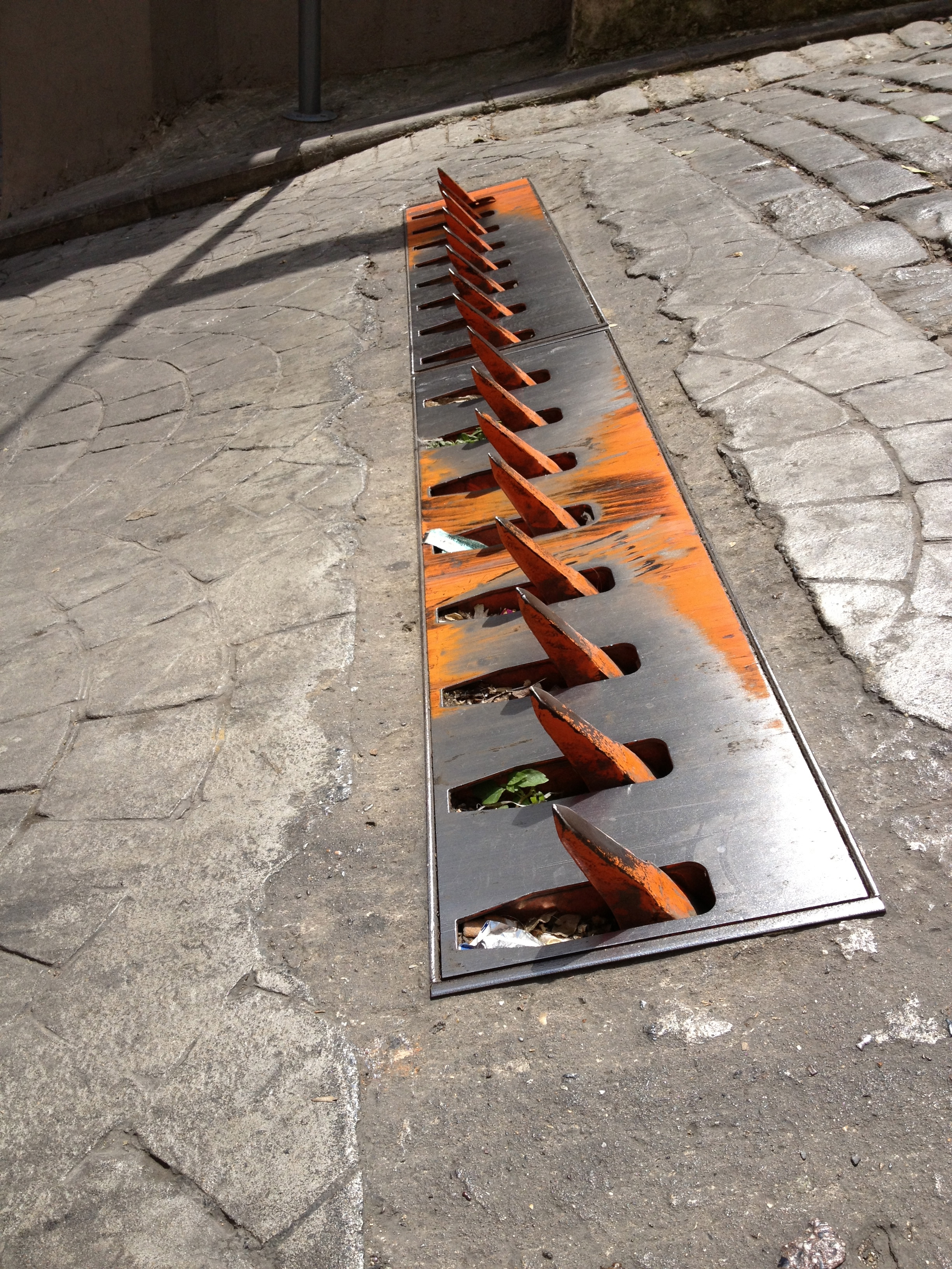 One way road barrier. Cars can only pass in one direction. The tires push the pins down if the car is coming from the right and will puncture the tire if a car tries to pass it from the left. In Istanbul, Turkey.